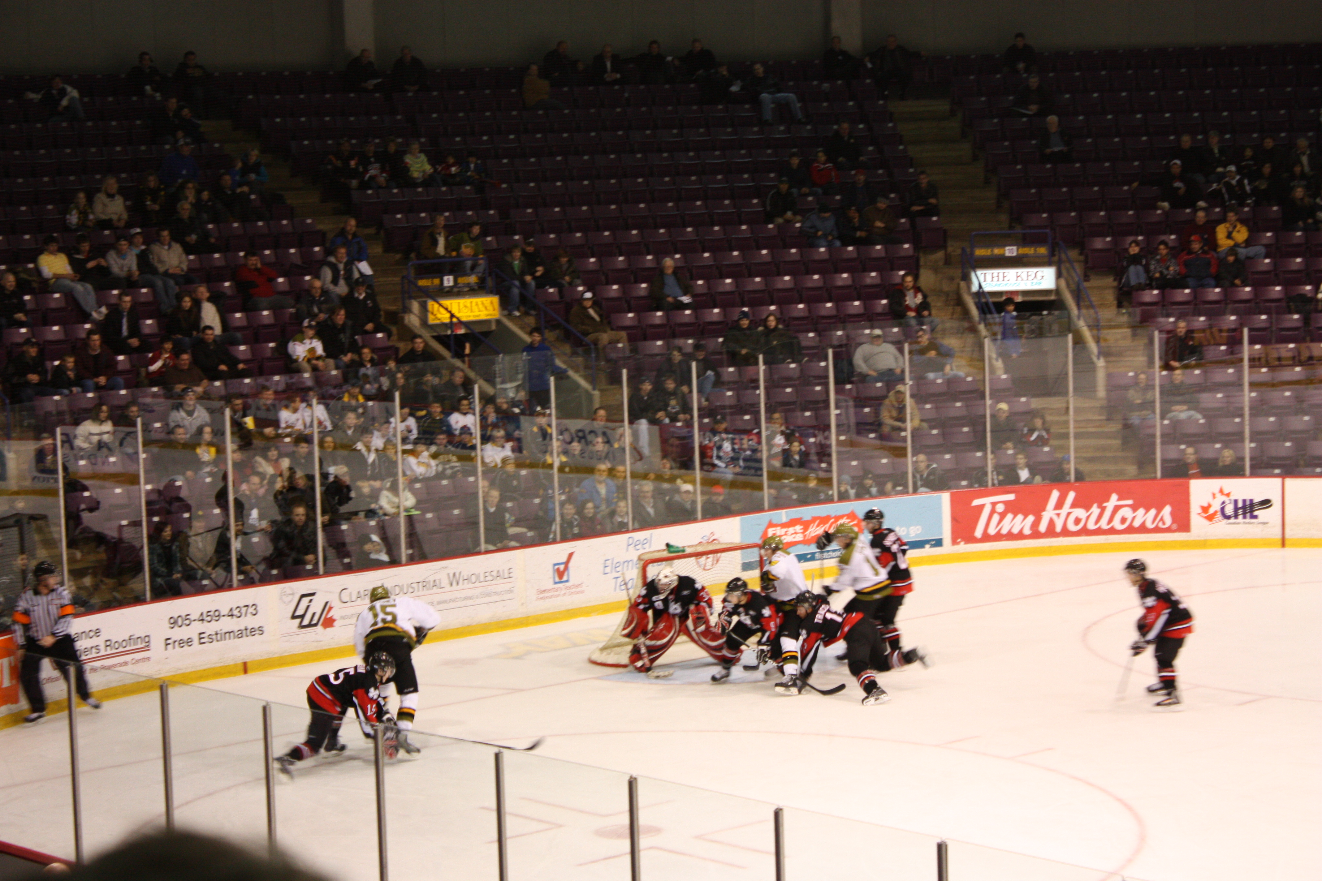 Brampton Battalion vs Niagara Ice Dogs in the Ontario Hockey League at the Powerade Centre in Brampton.